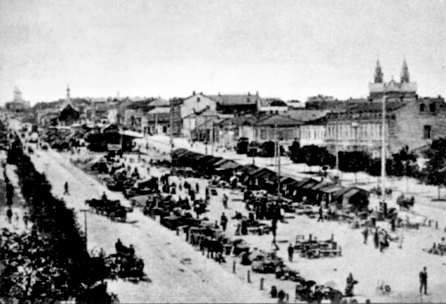 Old picture